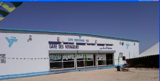 snim gare